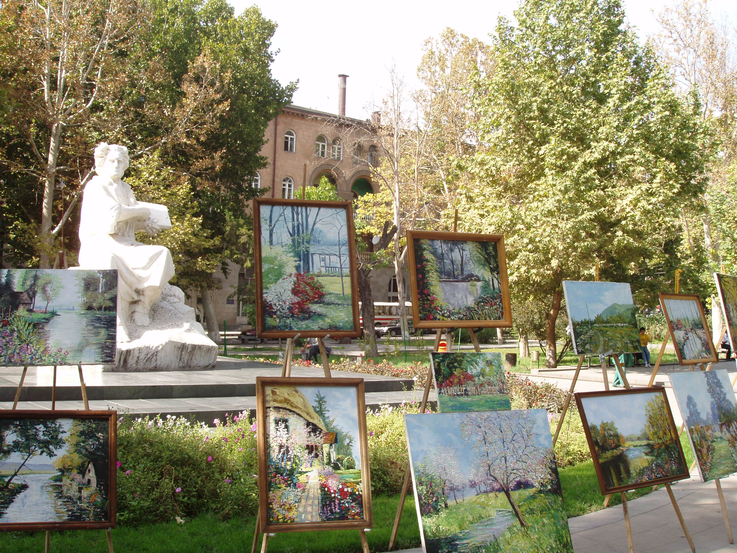 Monument to Martiros Saryan, Yerevan.